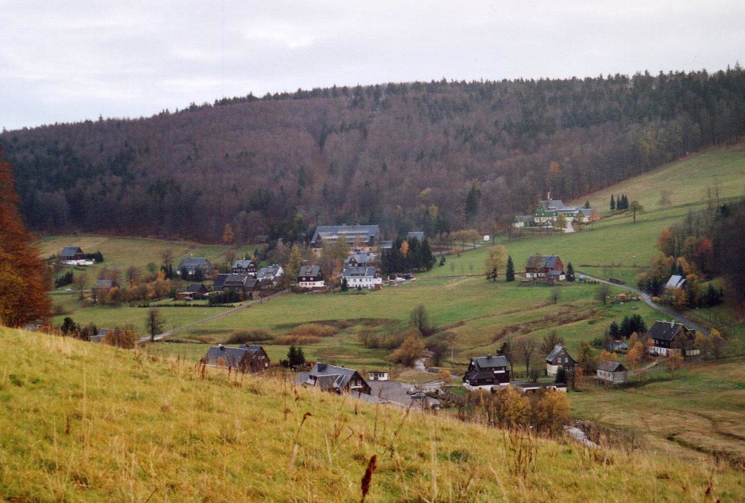 This image shows Rehefeld-Zaunhaus in the Ore Mountains in Saxony, Germany.